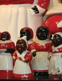 Mammy